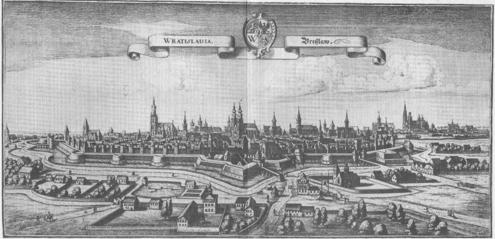 Wratislauia - Breßlaw - Breslau - view of the city - 17th Century